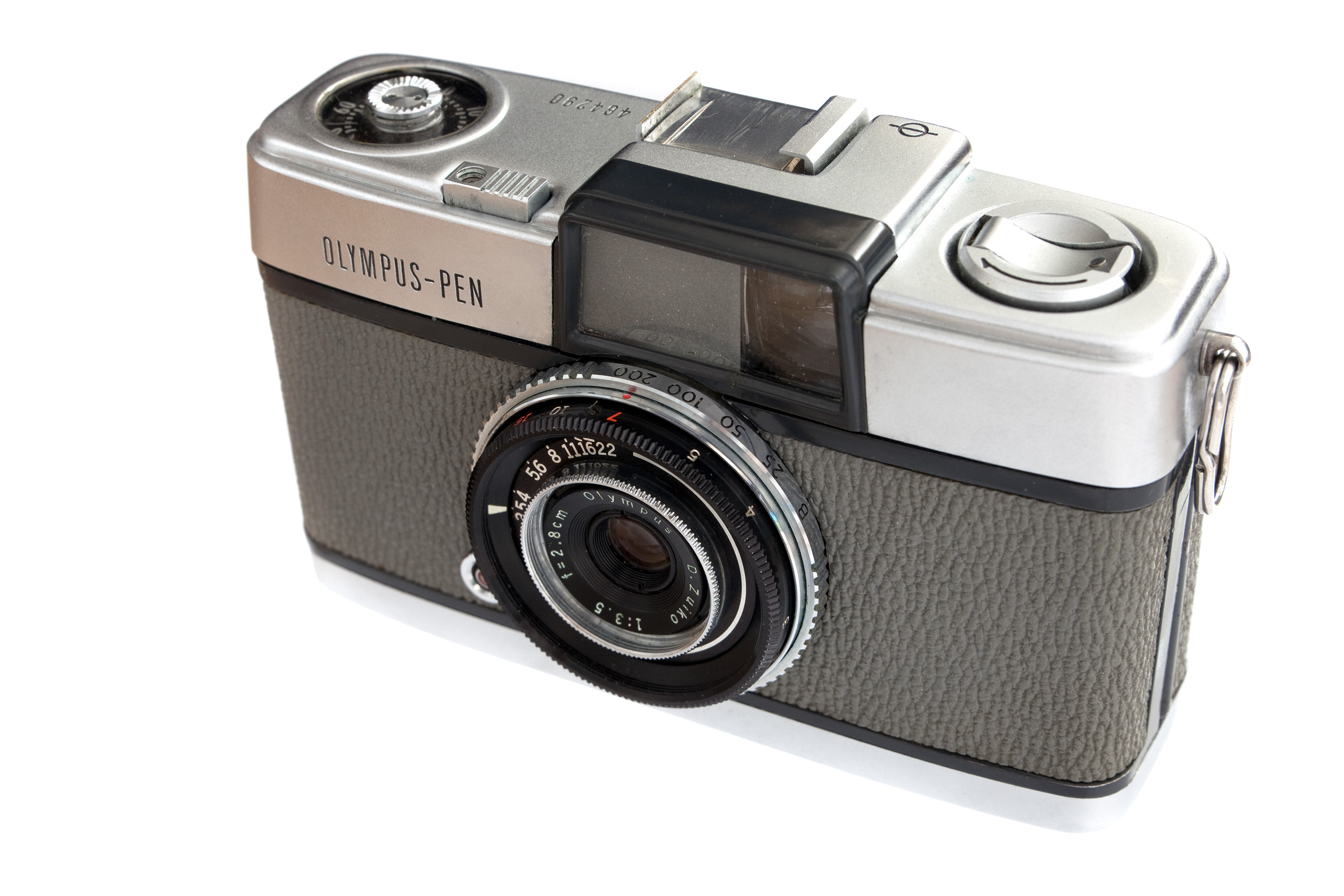 An Olympus Pen, model of 1959, revision three (two lugs).